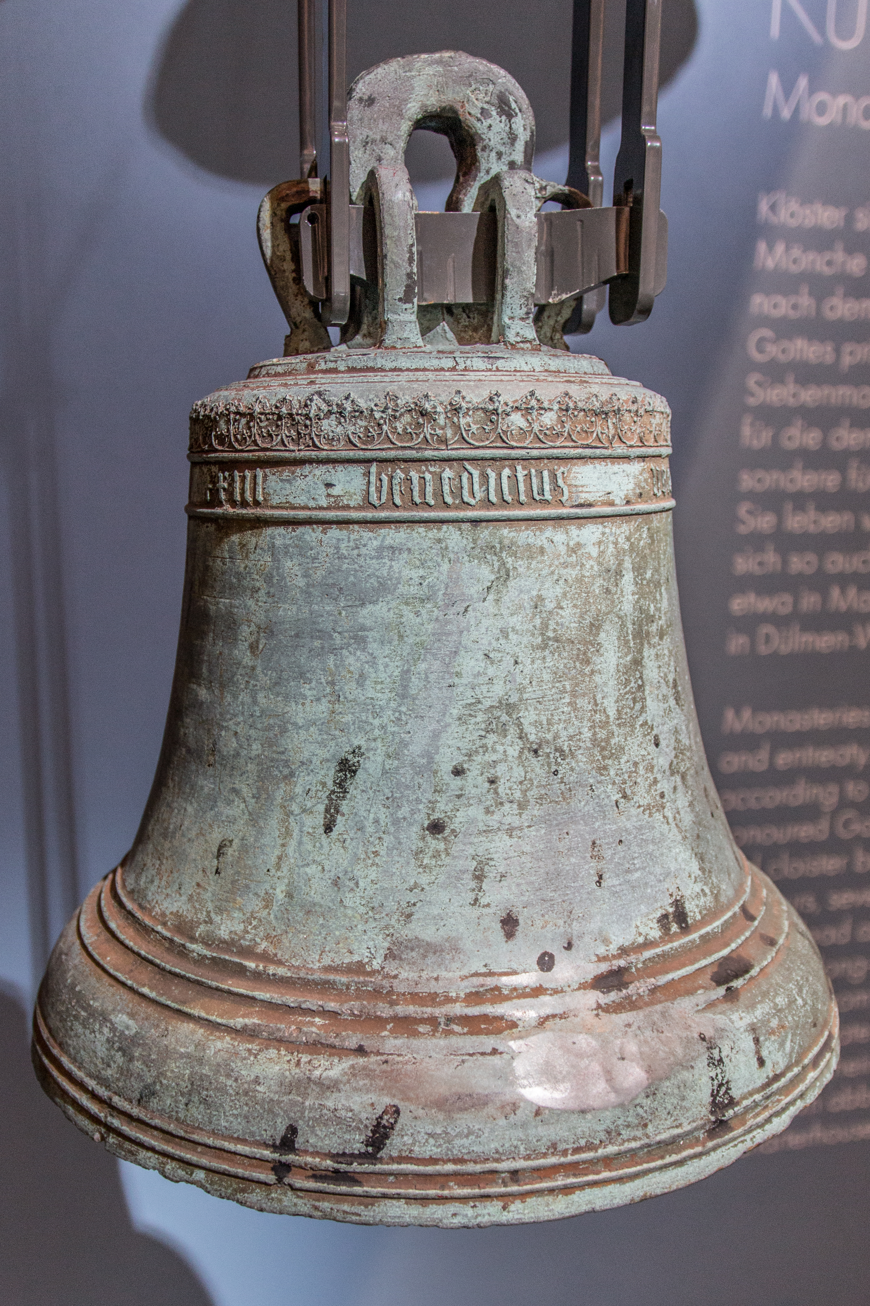 Benedictus bell from the Iburg monastery in Lower Saxony, cast in 1523, on static display in the Westphalian State Museum of Art and Cultural History Native nameLWL-Museum für Kunst und KulturLocationMünster, GermanyCoordinates51° 57′ 42.84″ N, 7° 37′ 27.98″ E Established1908 Web pageLWL-Museum für Kunst und KulturAuthority control : Q1798475 VIAF: 308203765 LCCN: no2015002123 OSM: 3961153 GND: 1050462688 NKC: ko2018998071 WorldCat institution QS:P195,Q1798475 in Münster, Germany